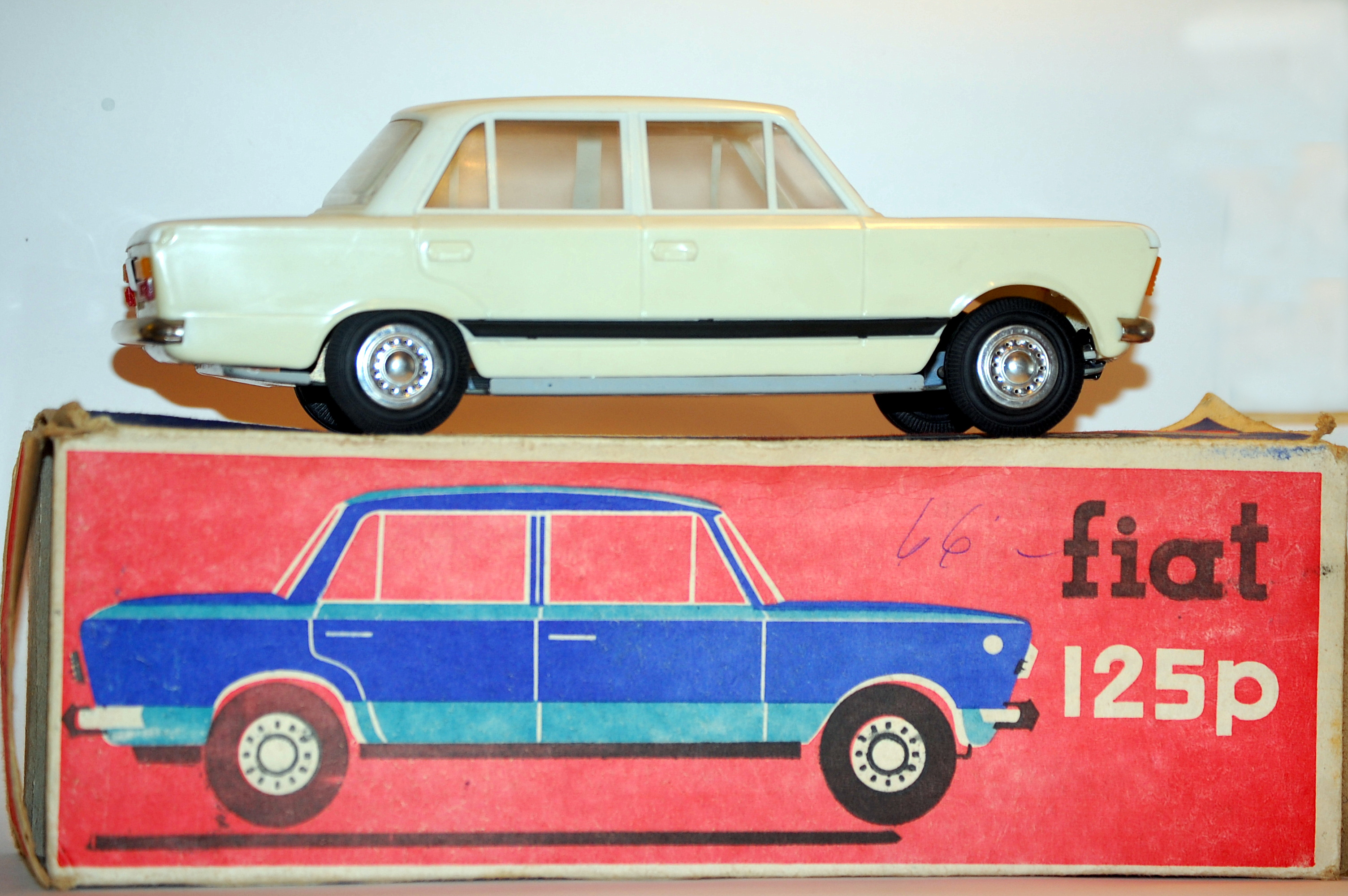 Scale model of Polski Fiat 125p.